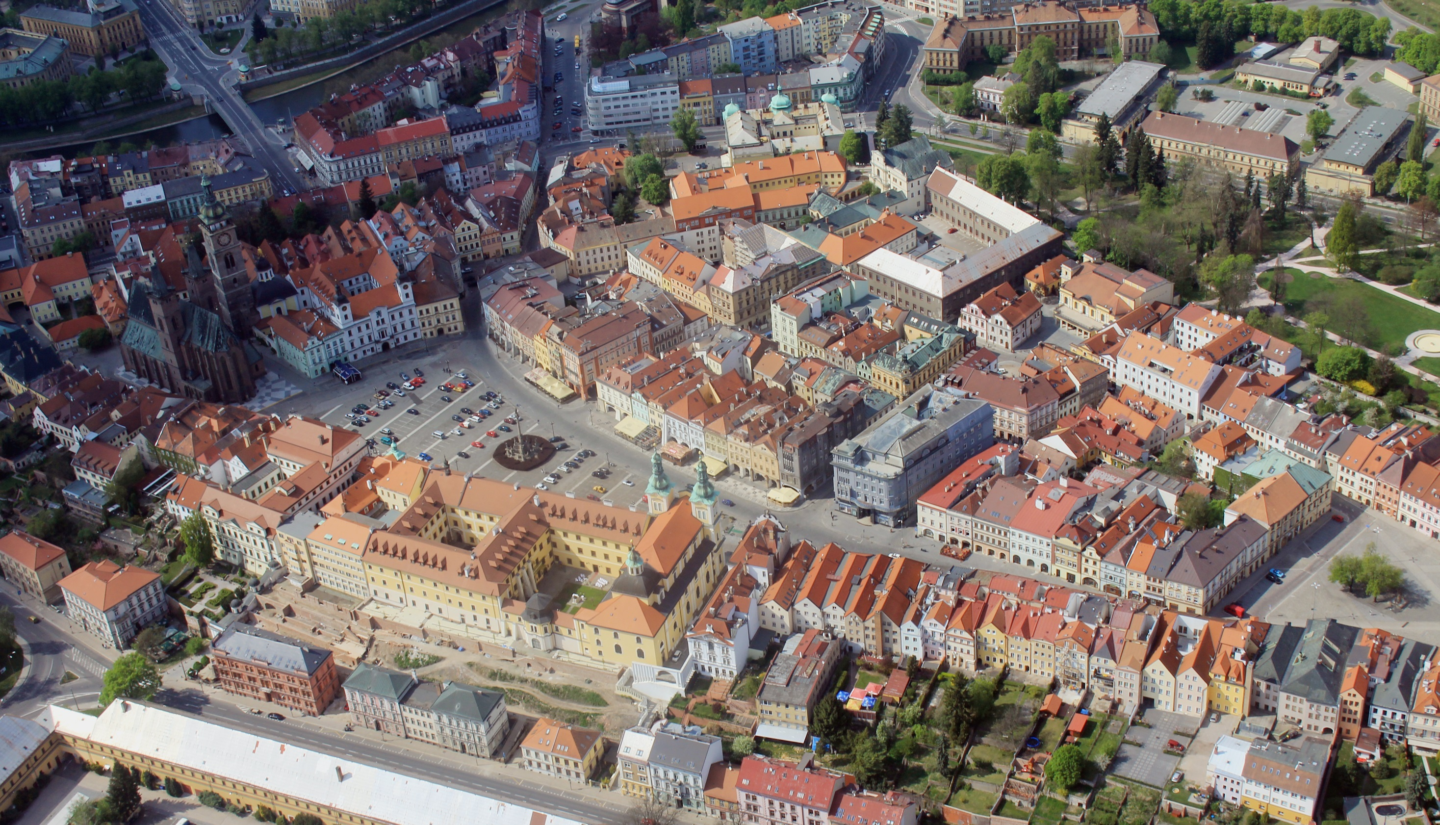 Centre of town Hradec Králové from air, eastern Bohemia, Czech Republic